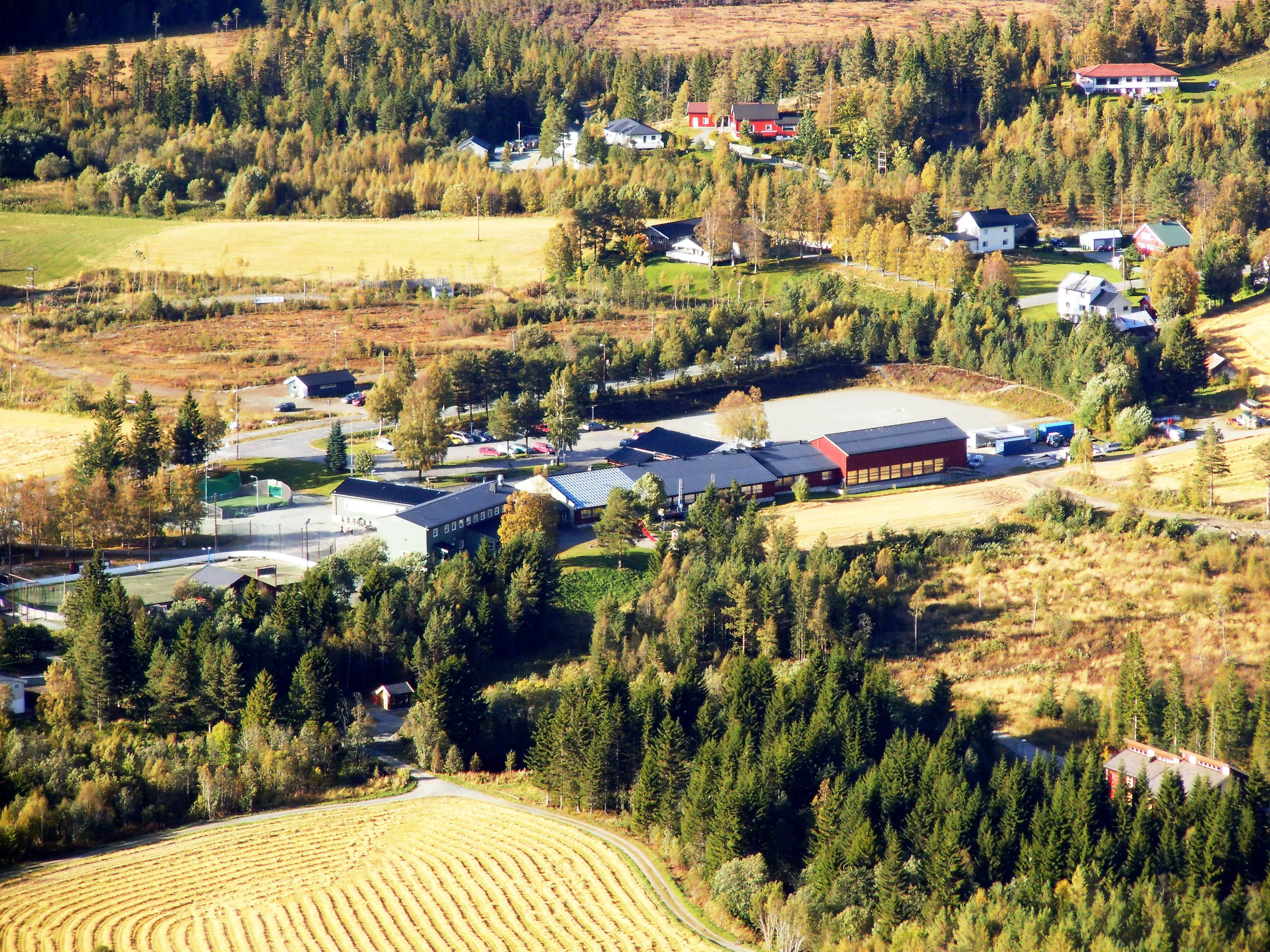 Eid skole, an elementary school located in Korsvegen